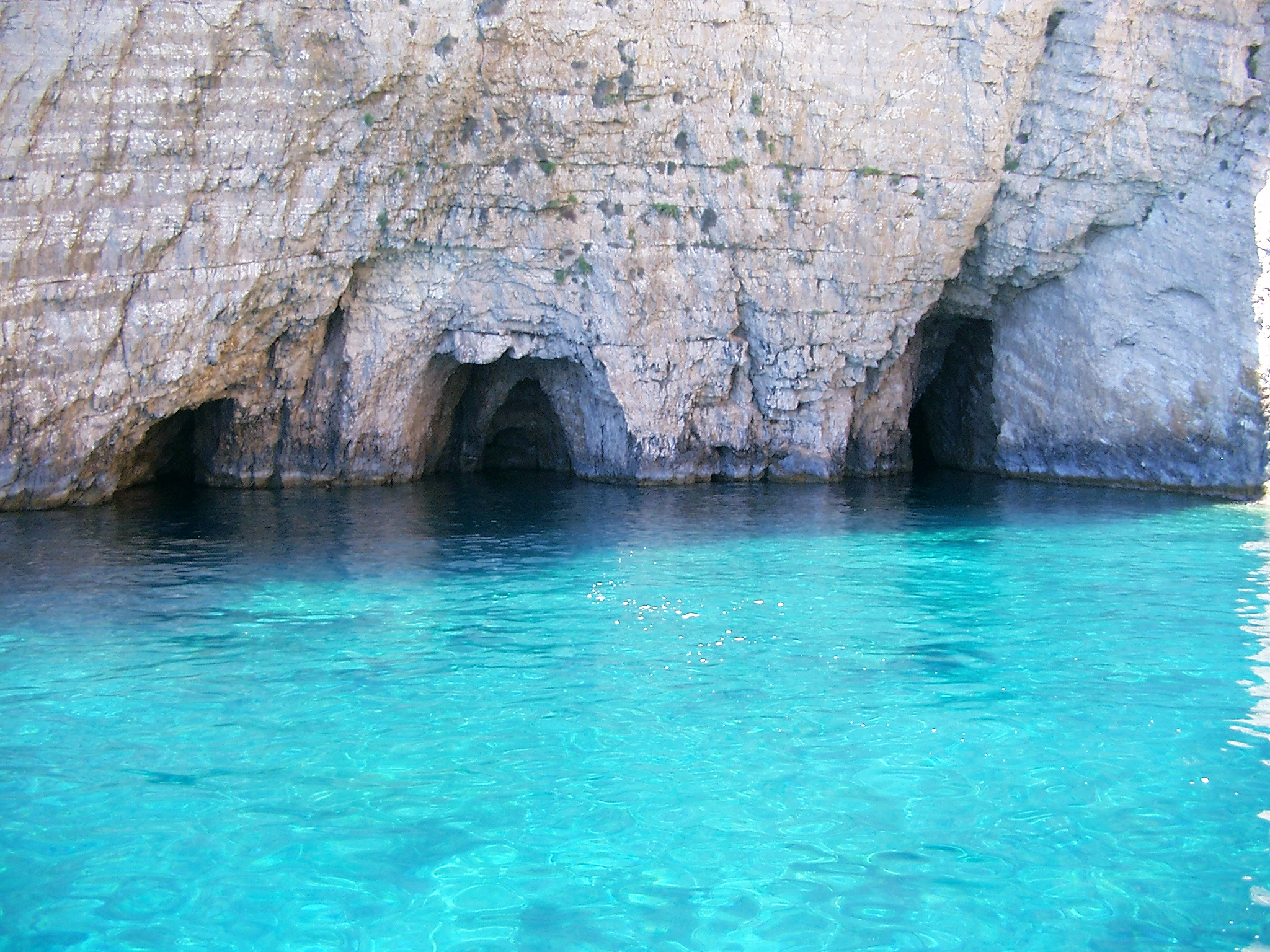 Entrance of caves on the maritime coastline of Zakynthos island, Greece